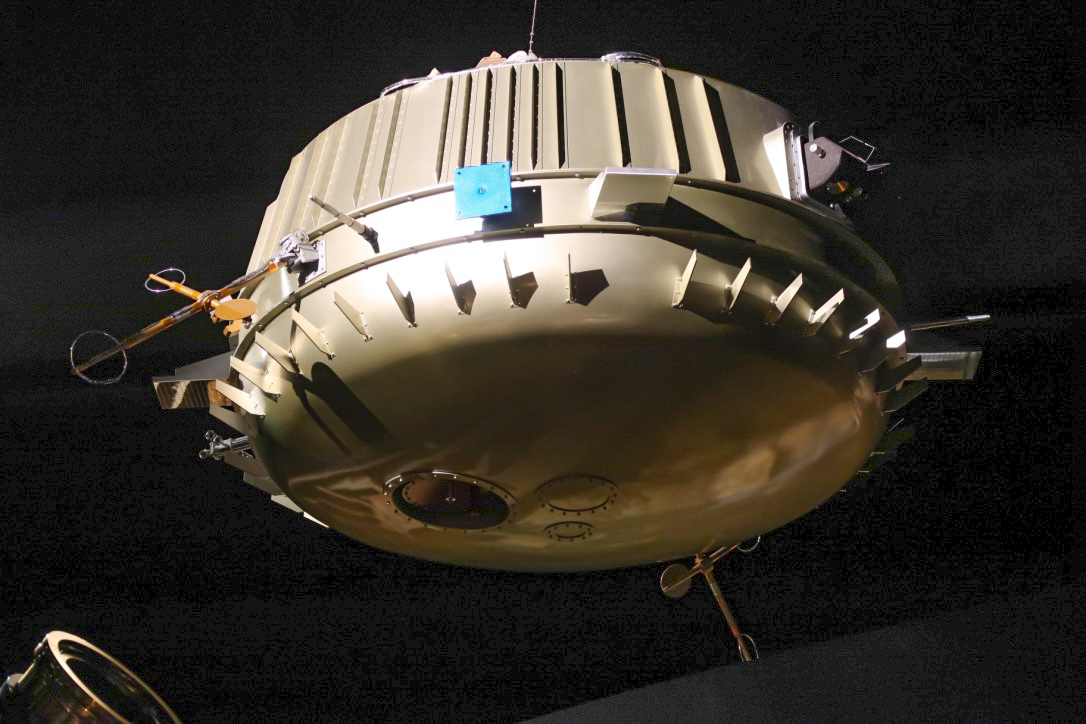 Model of the Huygens probe. 2008. Netherlands, Maastricht. Hupkens Industrial Models. Fiberglass, aluminum, plastic, textile. Musée des Confluences. Lyon. inv MUSE0006